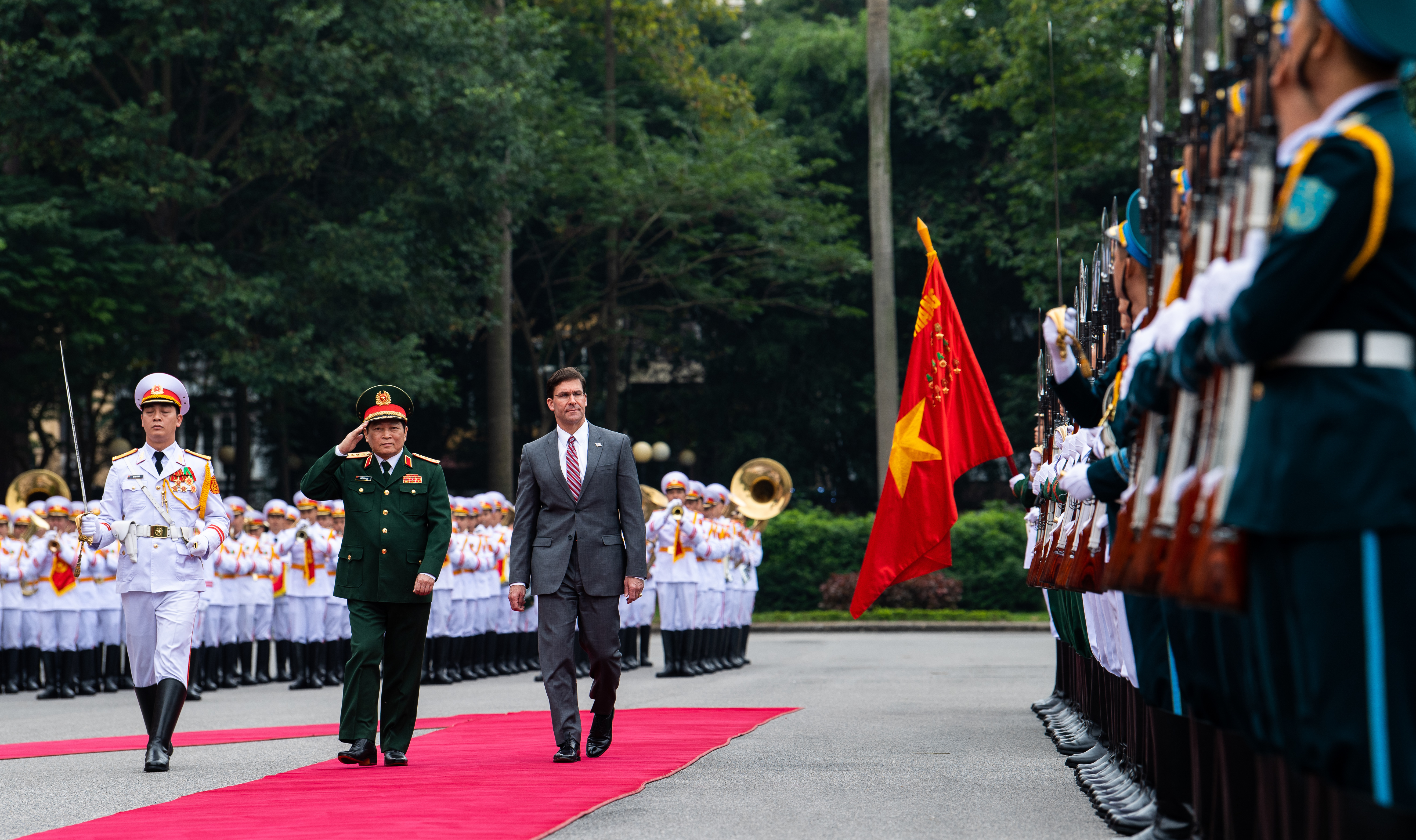 Vietnam hosts a bilat ceremony for Defense Secretary Mark T. Esper during his visit to Hanoi, Vietnam, Nov. 20, 2019. (DoD photo by Army Staff Sgt. Nicole Mejia)